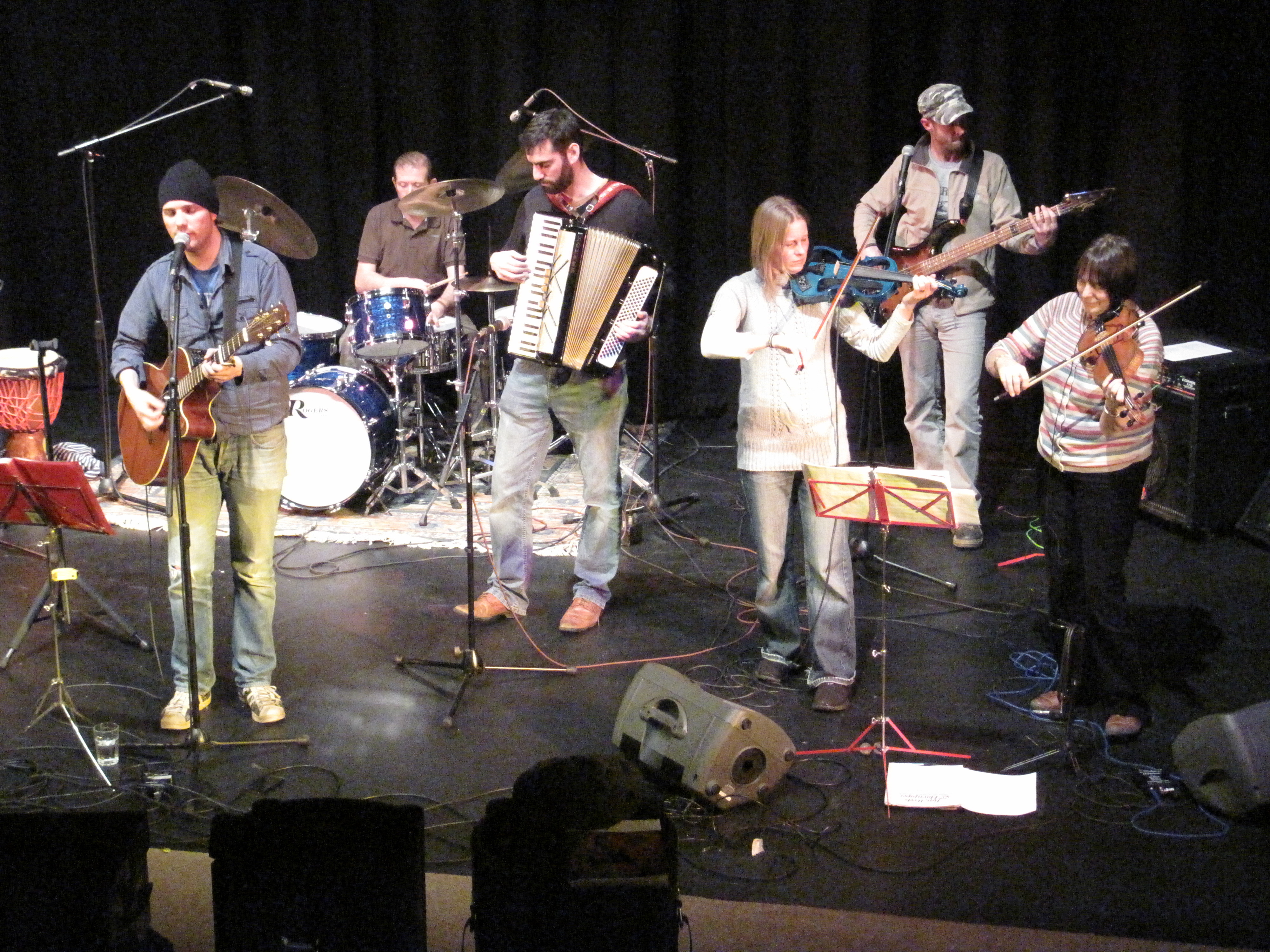 Badlabecques at Jersey Arts Centre, February 2013